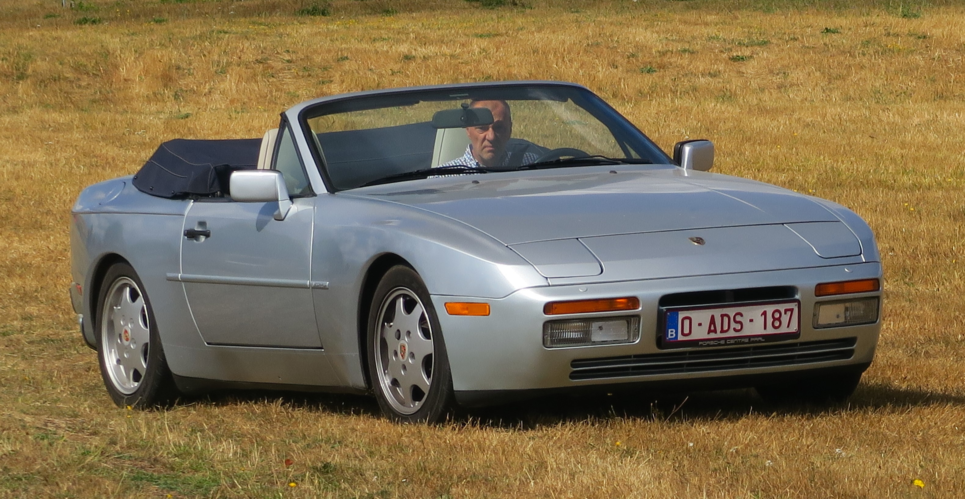 Porsche 924 cabriolet arriving Schaffen-Diest 2018